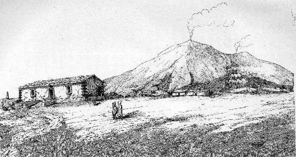 "The house of the English" or "Casa di Gemmellaro"